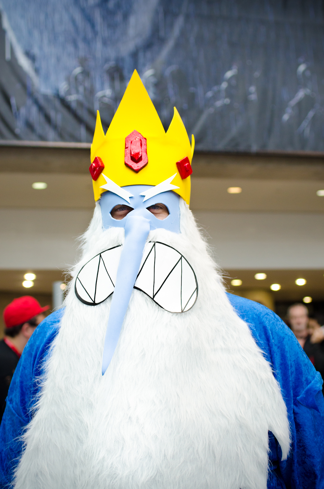 Cosplay at New York Comic Con 2013 (NYCC 2013).